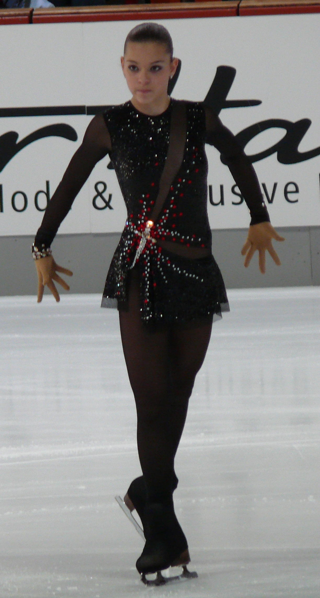 Adelina Sotnikova (RUS) at her short program at the Nebelhorn Trophy 2012 in Oberstdorf/Germany